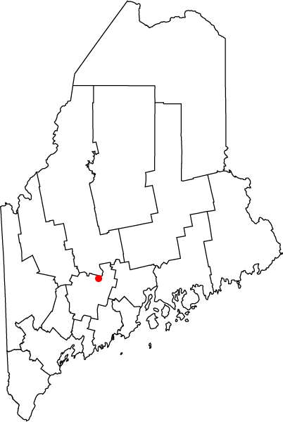 Map of the state of Maine with County Outlines, highlighting Waterville.